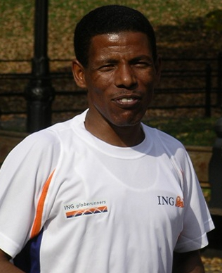 Gebrselassie, marathon record holder